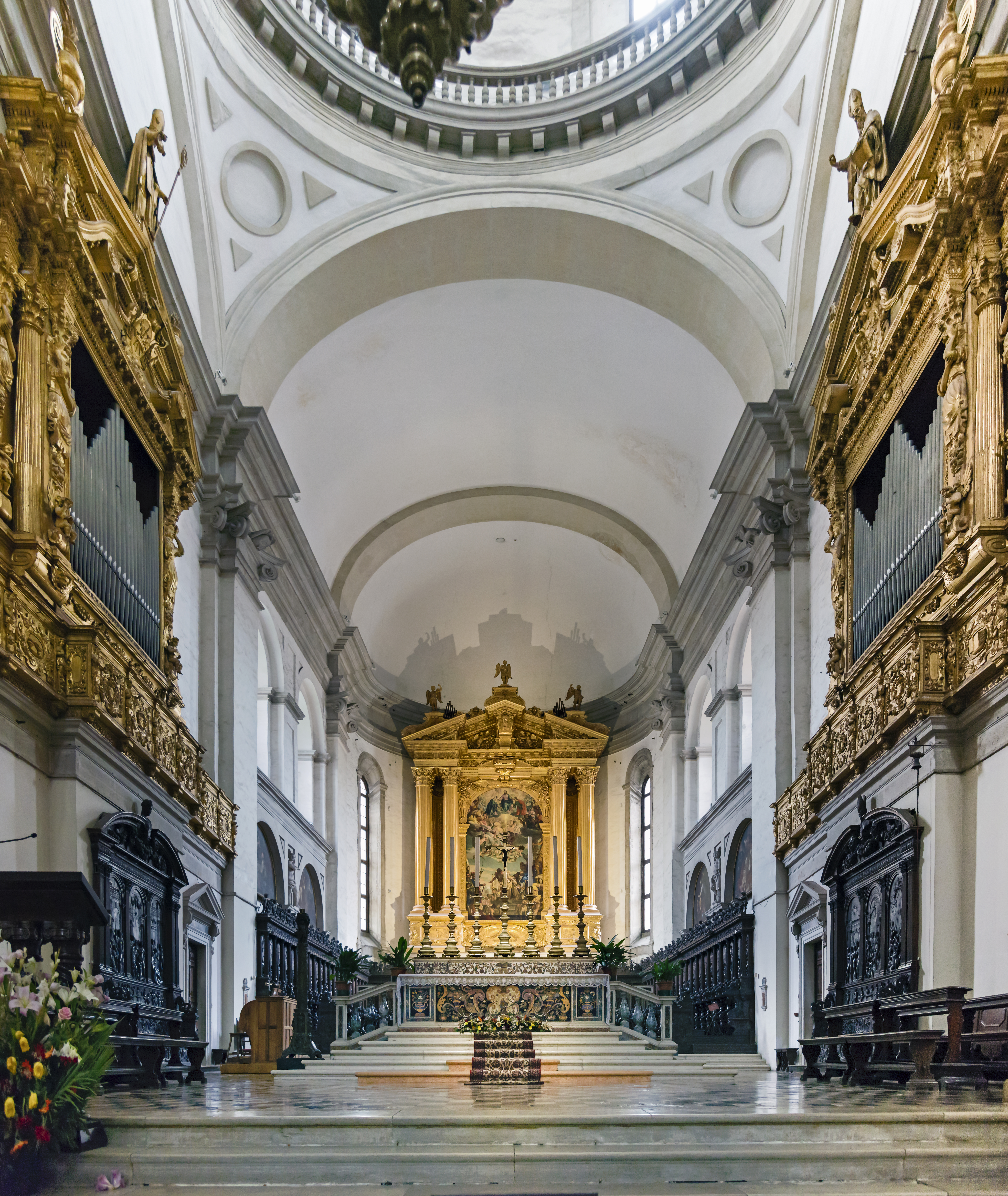 Churche Saint Justina of Padua in Italy. Choir and High Altar.